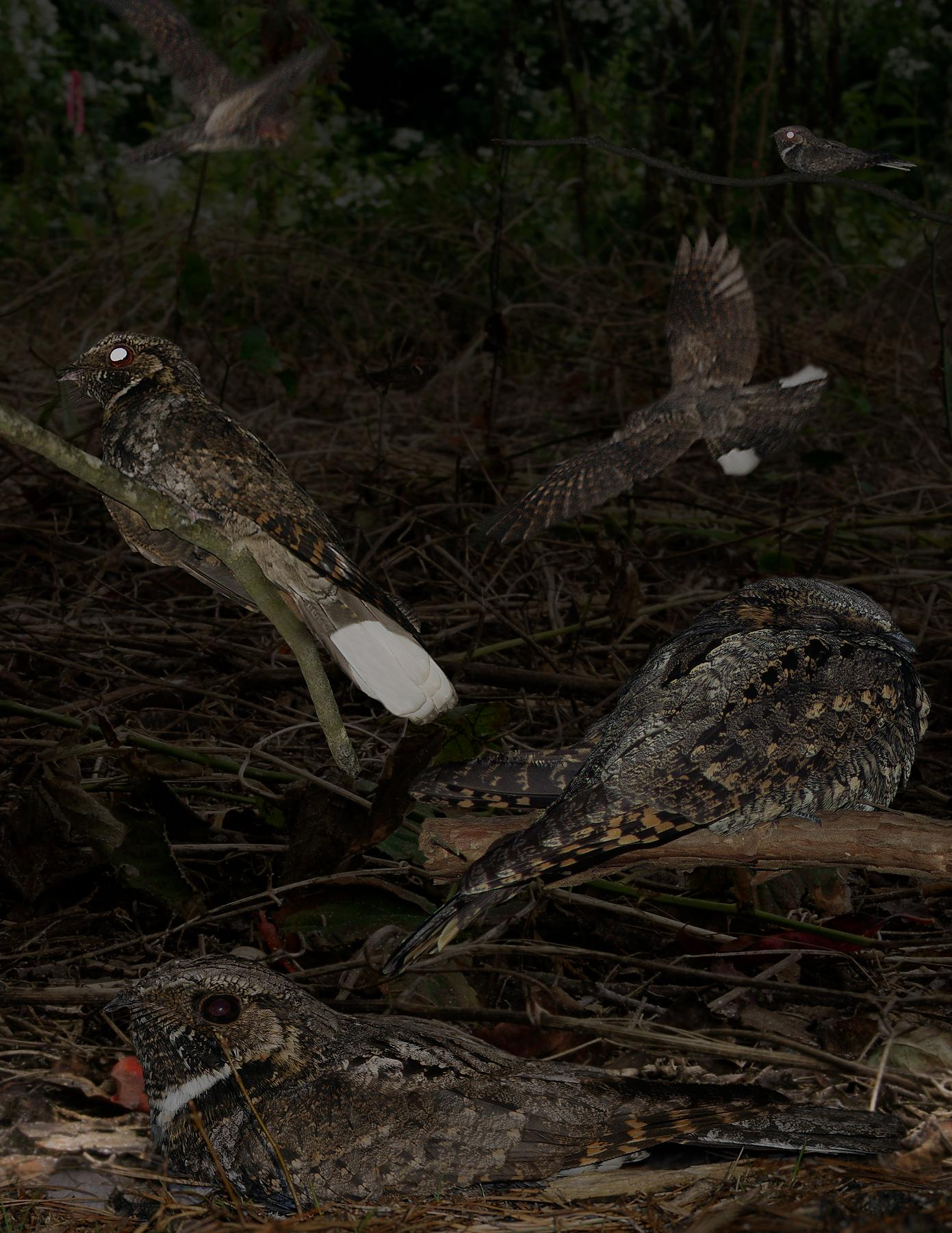 Whip-poor-will From The Crossley ID Guide Eastern Birds